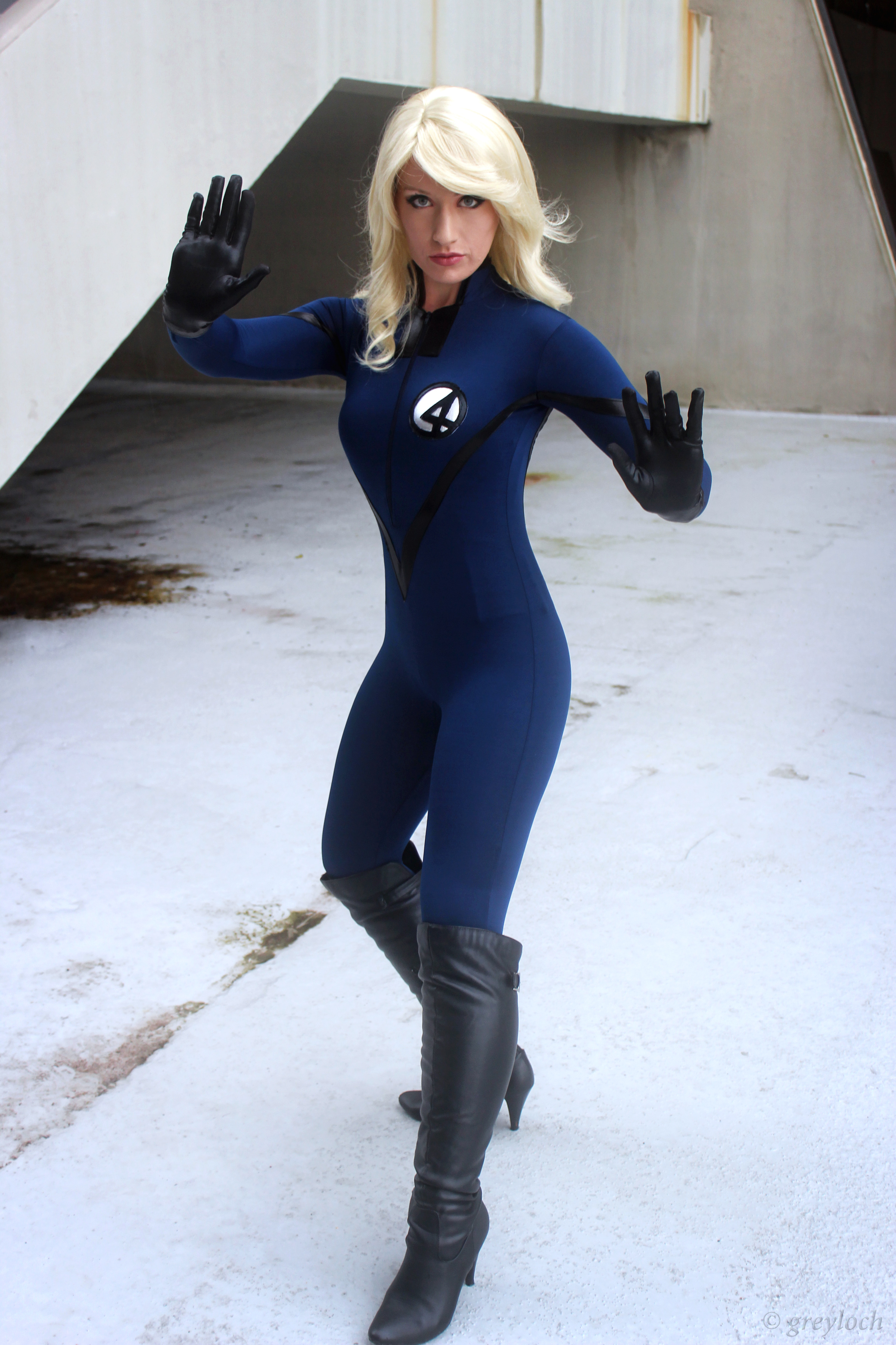 Cosplay of Susan Storm / Invisible Woman, Dracon Con 2013